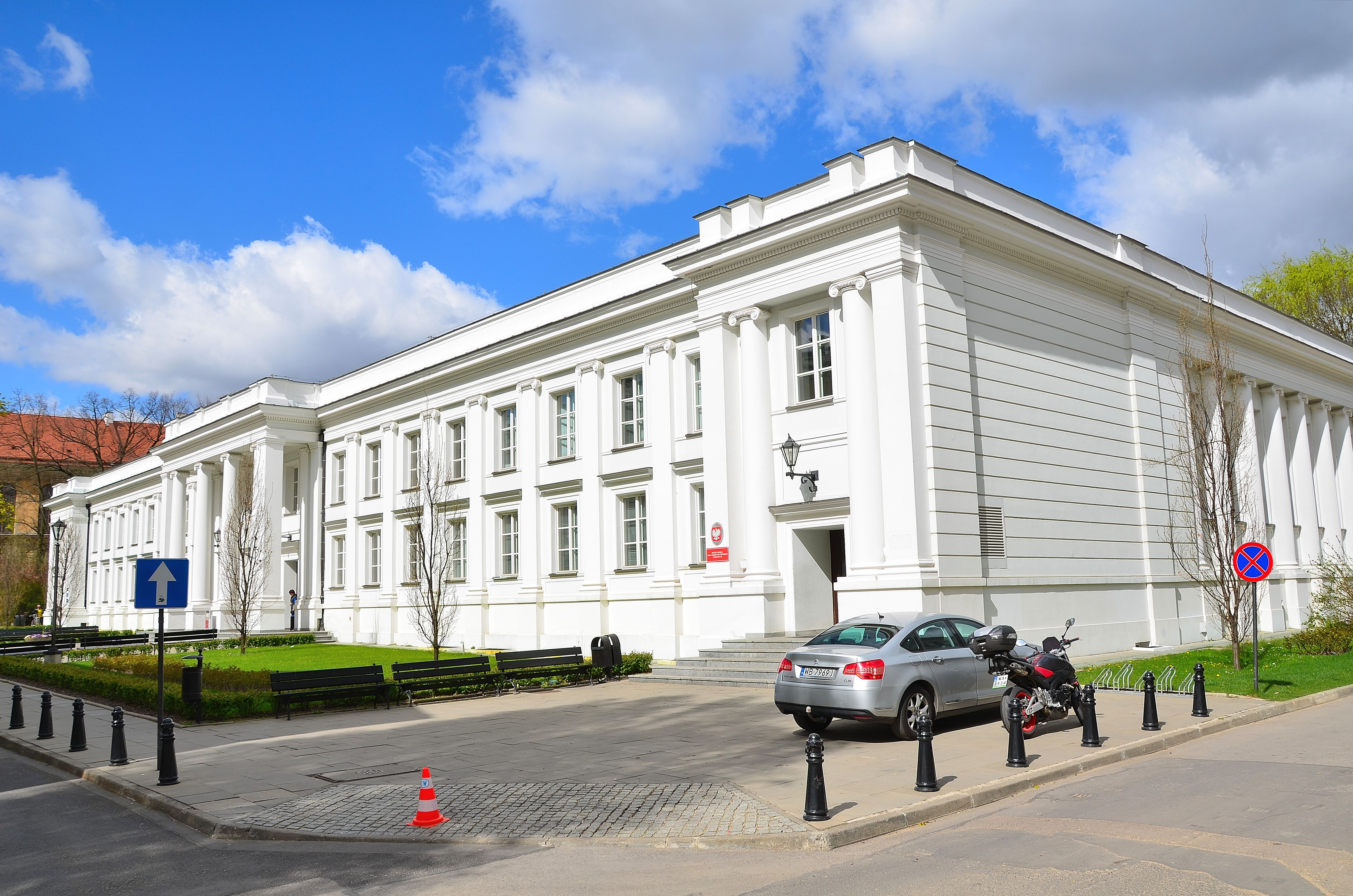 Auditorium Maximum buiding, Warsaw University